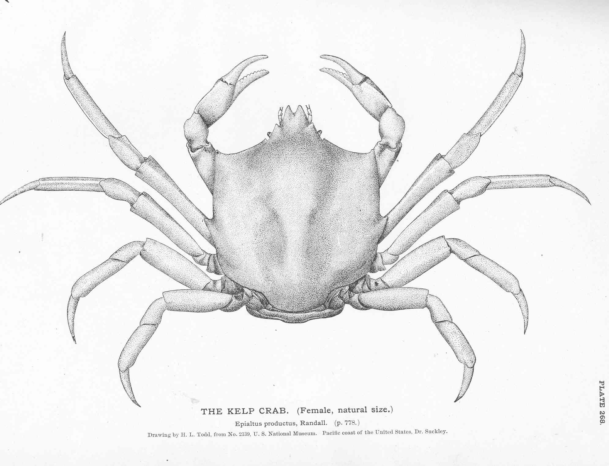 Kelp Crab (Female) Epialtus productus, Randall Subject: Crabs, Epialtus Tag: Shellfish